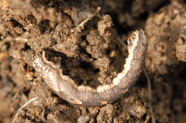 Epirrhoe alternata from Commanster, Belgian High Ardennes .